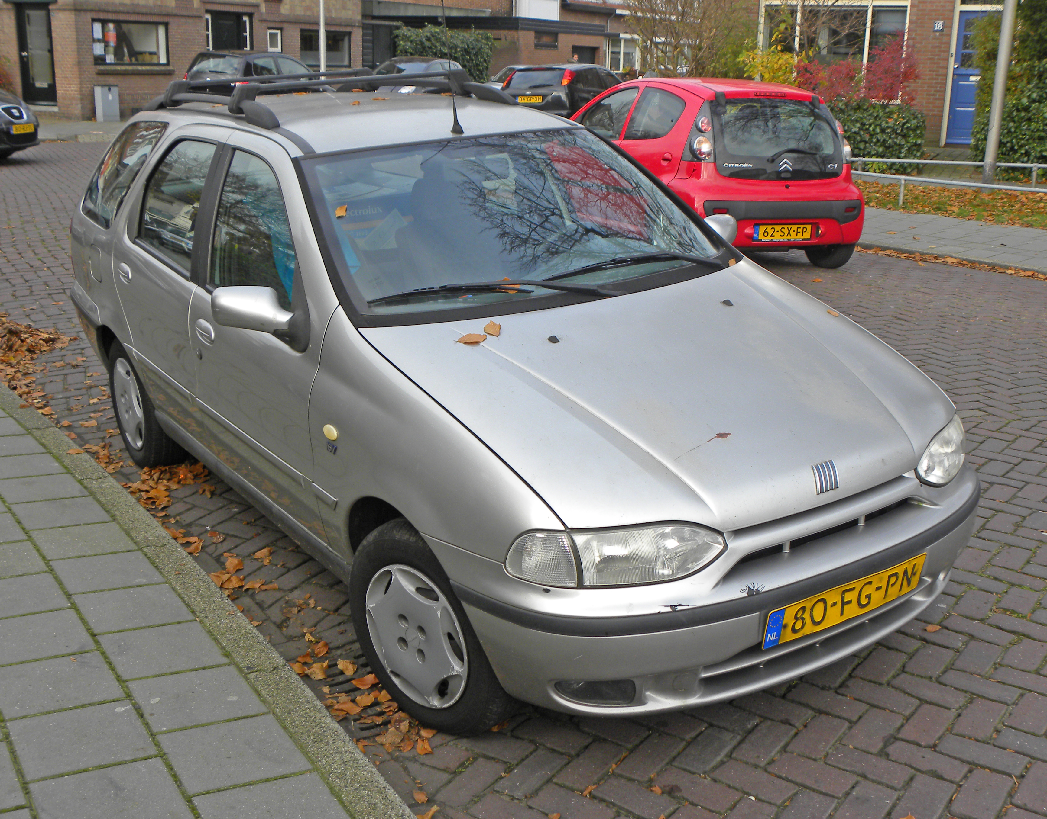 year 2000 Fiat Palio Weekend 1.6 16V